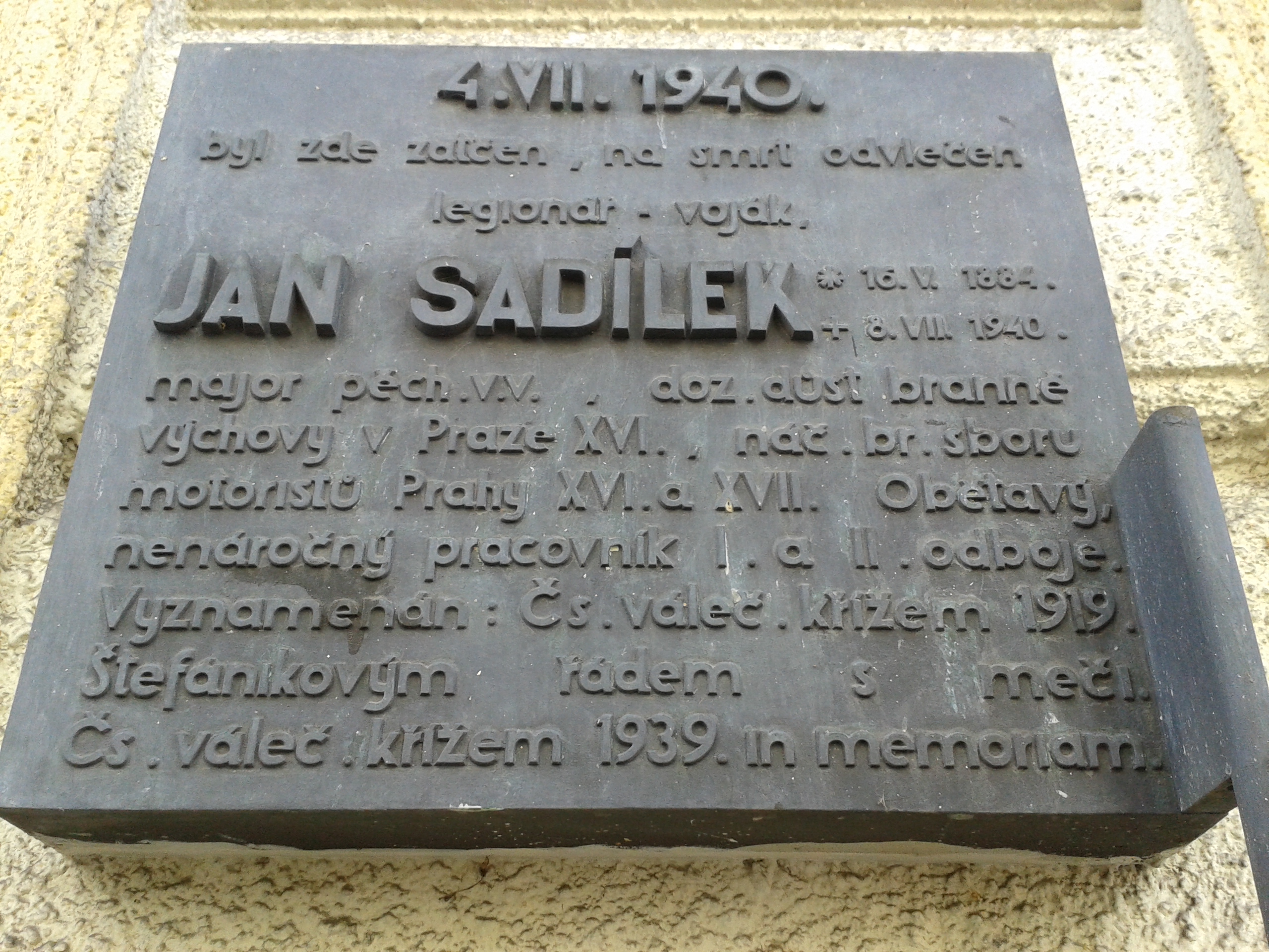 A bronze plaque on house no. 652 in Preslova street 19, Prague 5 - Smíchov (Czech republic) is dedicated to Mr.Jan Sadílek (* 1884 - † 1940). In time of the protectorate was a member of an illegal organization Defence of the Nation (ON). Jan Sadílek (as a member of ON) worked as a close associate of Joseph Balaban. Sadilek was also a publisher of the illegal magazine "V boj". He was an organizer of transitions of people across borders of protectorate into exile abroad.